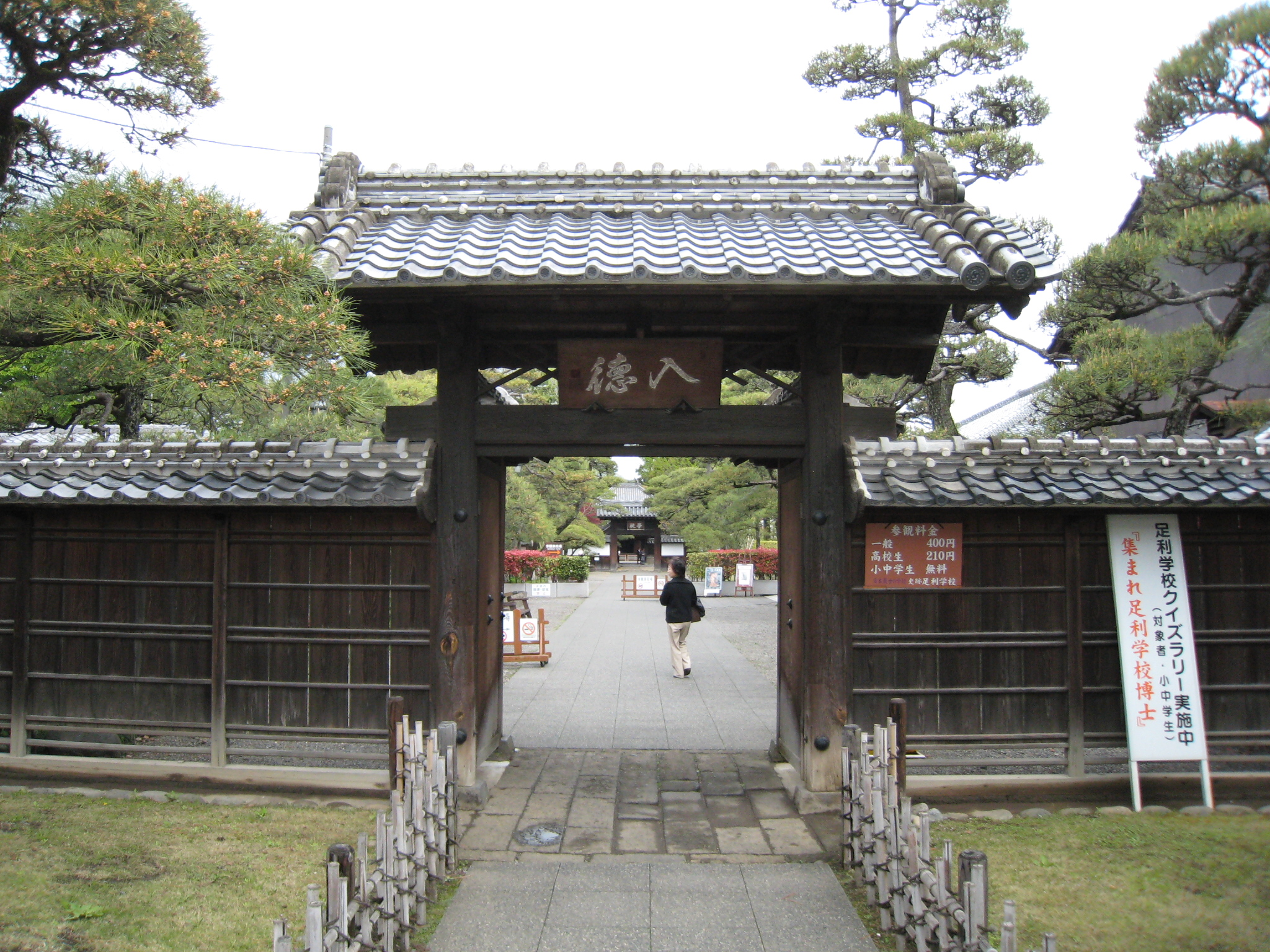 Ashikaga Gakko(or school) in Ashikaga, Tochigi Prefecture,Japan ,which was established in the 15th century.